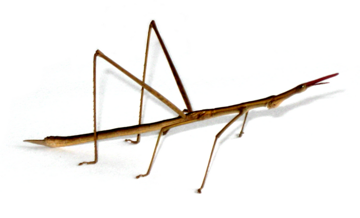 Proscopiidae specie found in Igaratá, Brazil. Probably Cephalocoema genus.